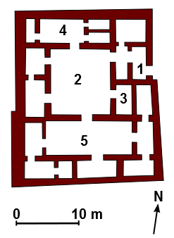 House excavated in the Merkes, in Babylone, 6th century BC. 1. entrance 2. main court 3. reception room 4. kitchen 5. residential private rooms. (E. Heinrich, "Haus", RLA IV, p. 211-212)